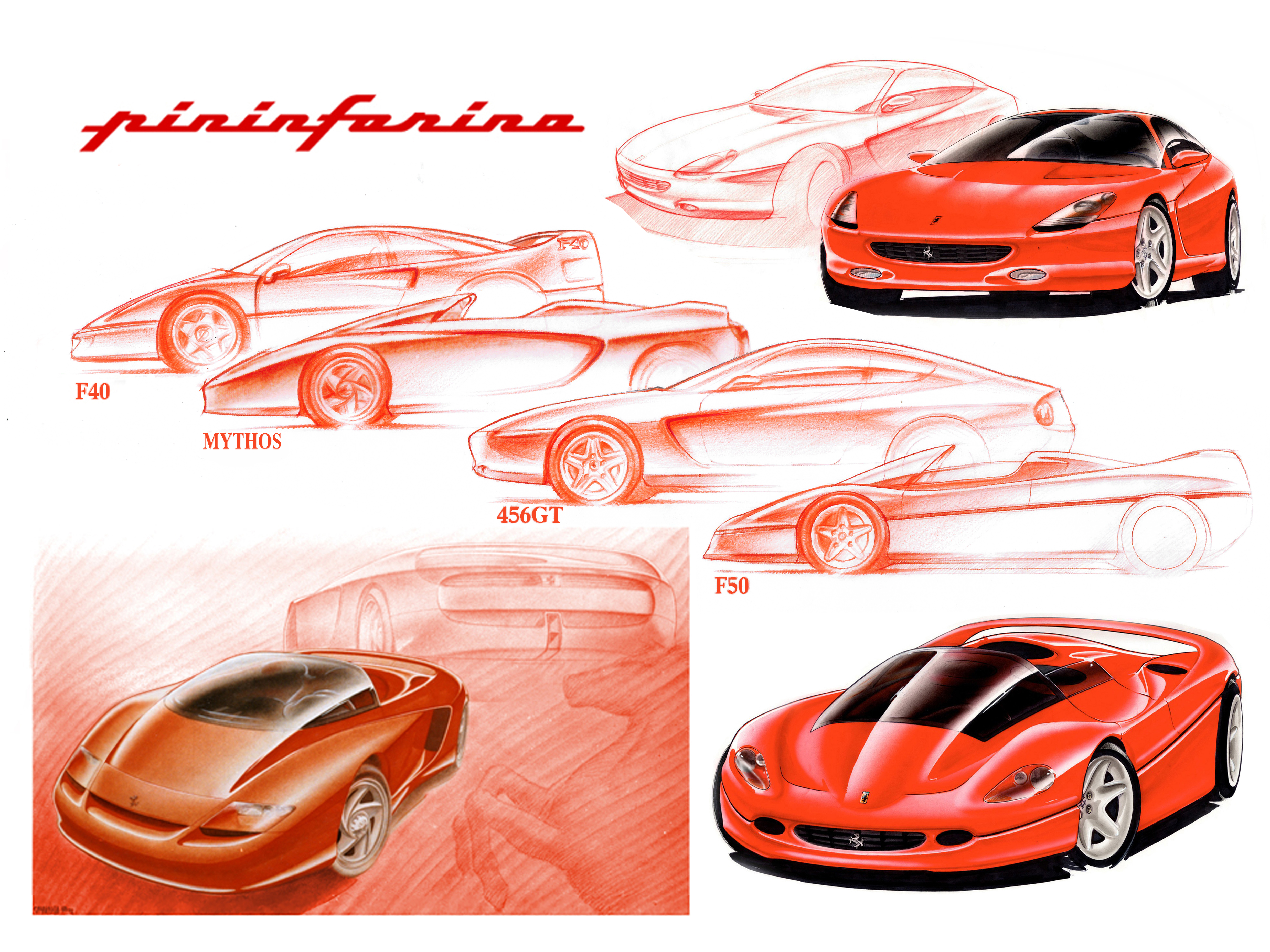 Peter Camardella design for Ferrari Pininfarina